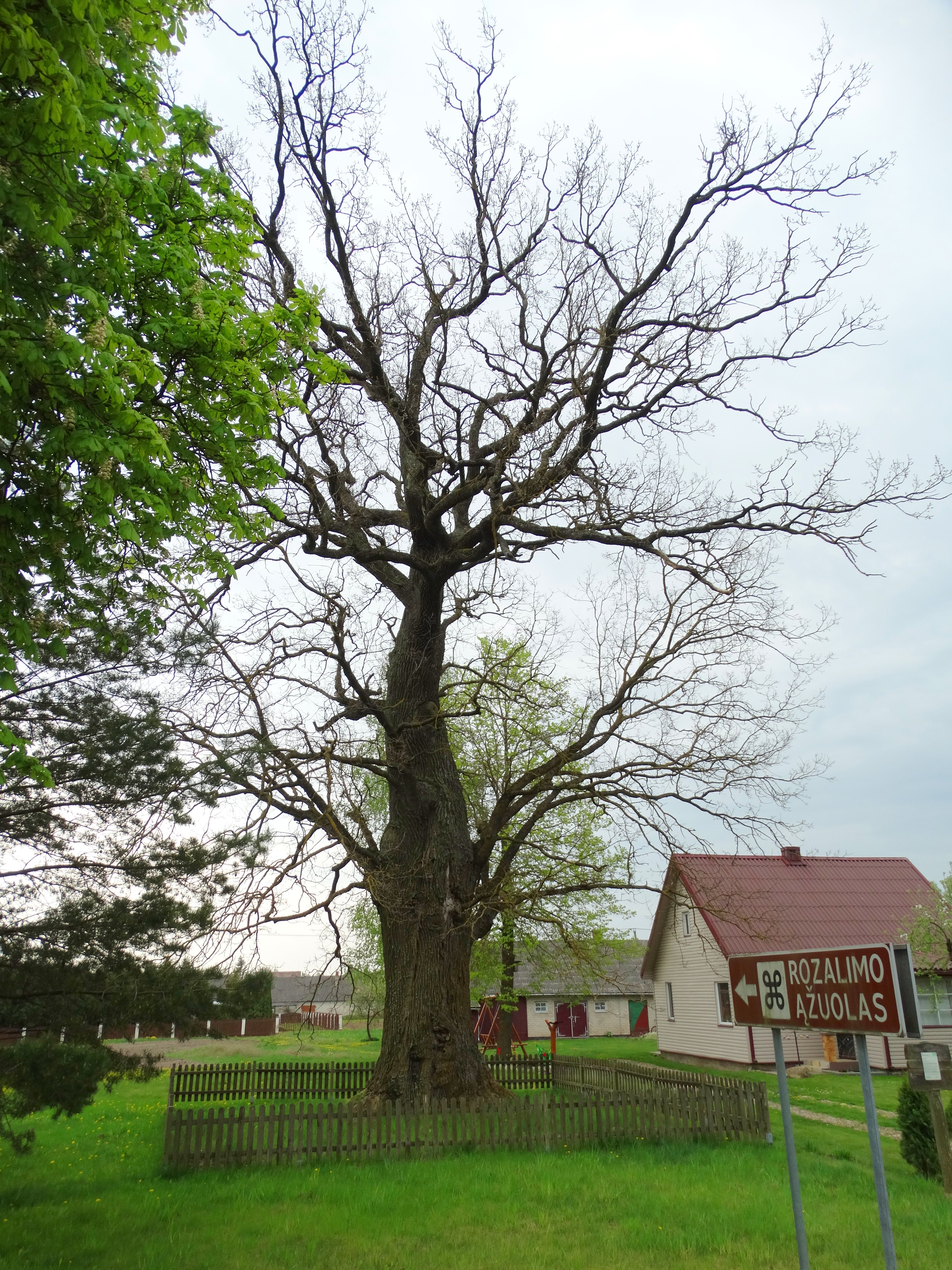 Rozalimas, protected oak tree, Pakruojis District, Lithuania